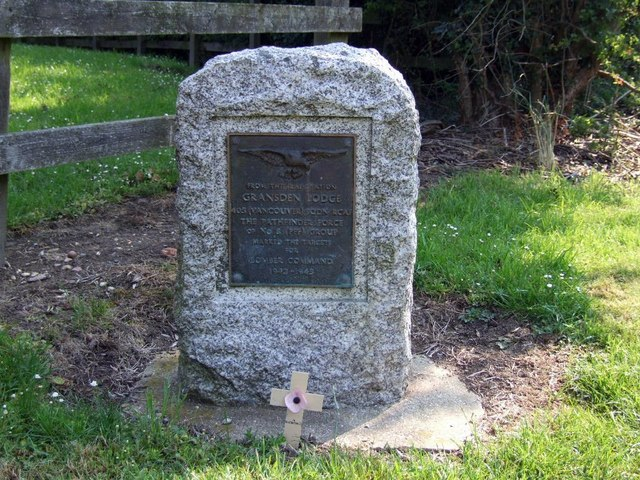 Memorial for Gransden Lodge RAF Station Inscription: From this RAF Station Gransden Lodge 405 (Vancouver) Sqdn RCAF The Pathfinder Force of No. 8 (PFF) Group marked the targets for Bomber Command 1942 - 1945